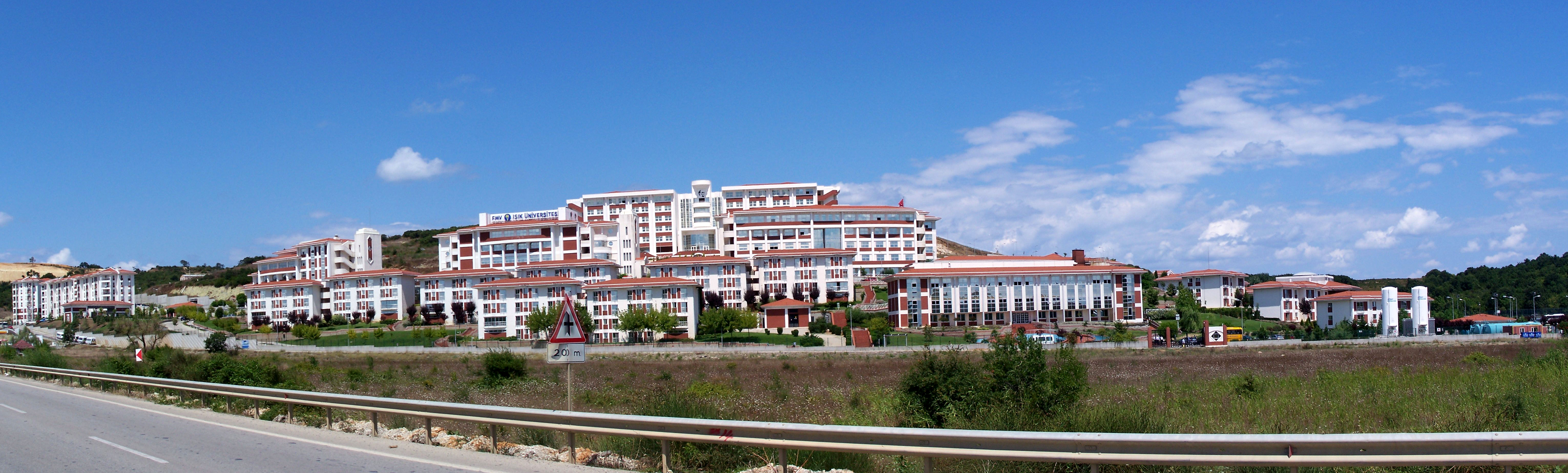 Panorama of the Işık Üniversitesi campus in Şile